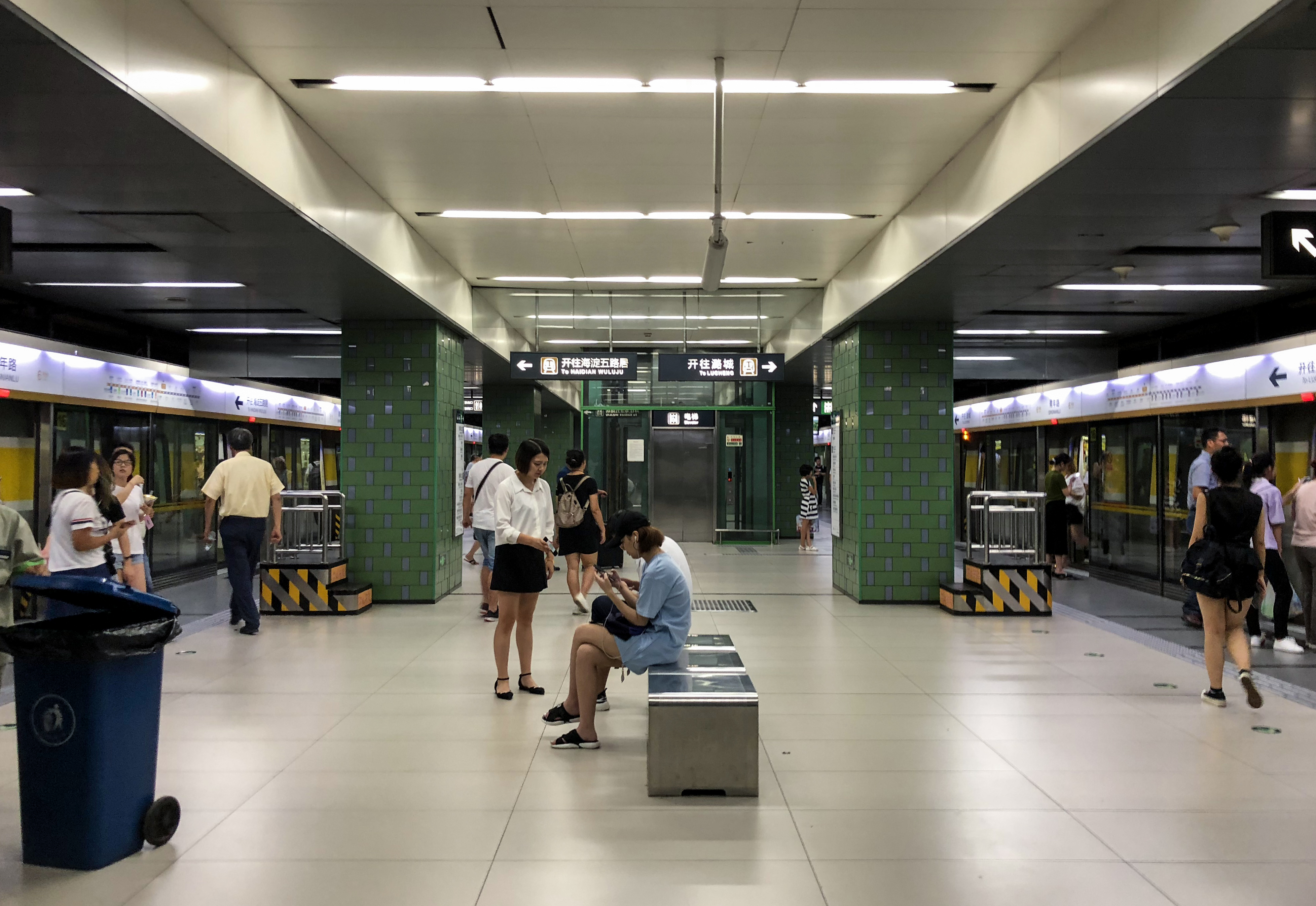 What did I see? QR code scanning as a new be...?